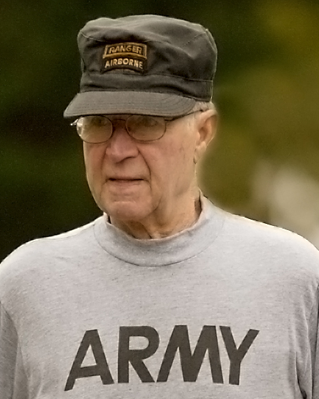 Bradley Ayers competing in a foot race (Wisconsin, Fall 2008)